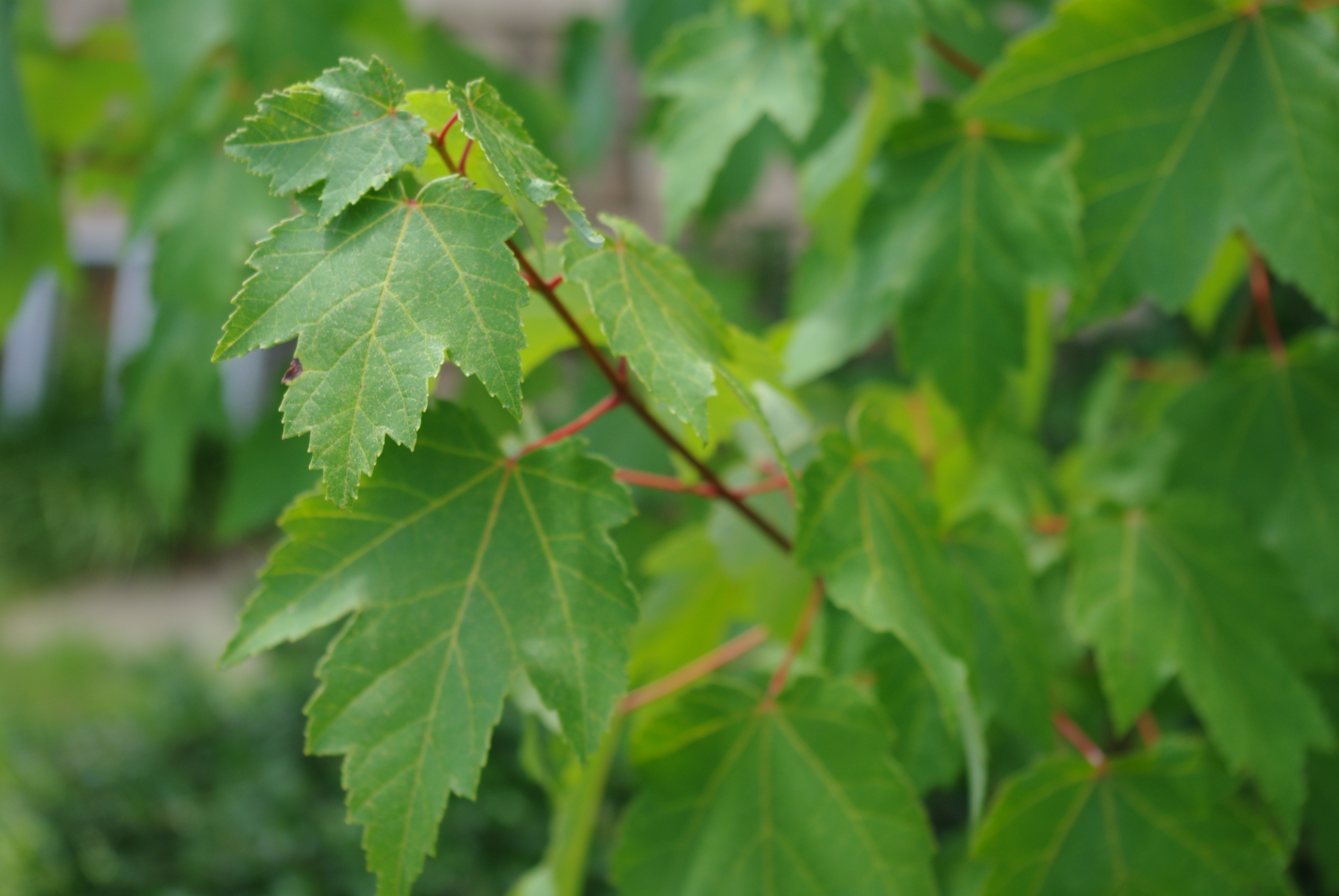 A summertime depiction of mature red maple leaves